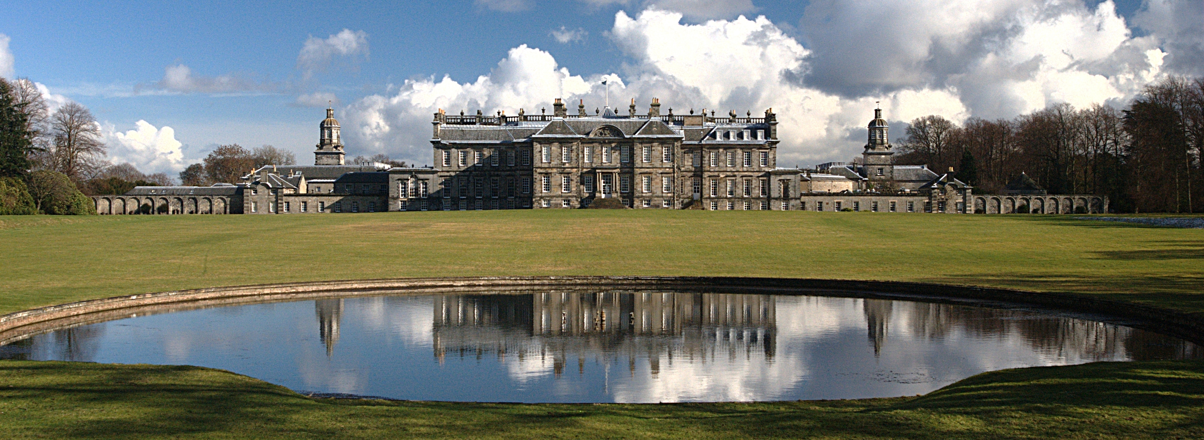 Hopetoun House near Edinburgh. This photo is taken from the back of the house